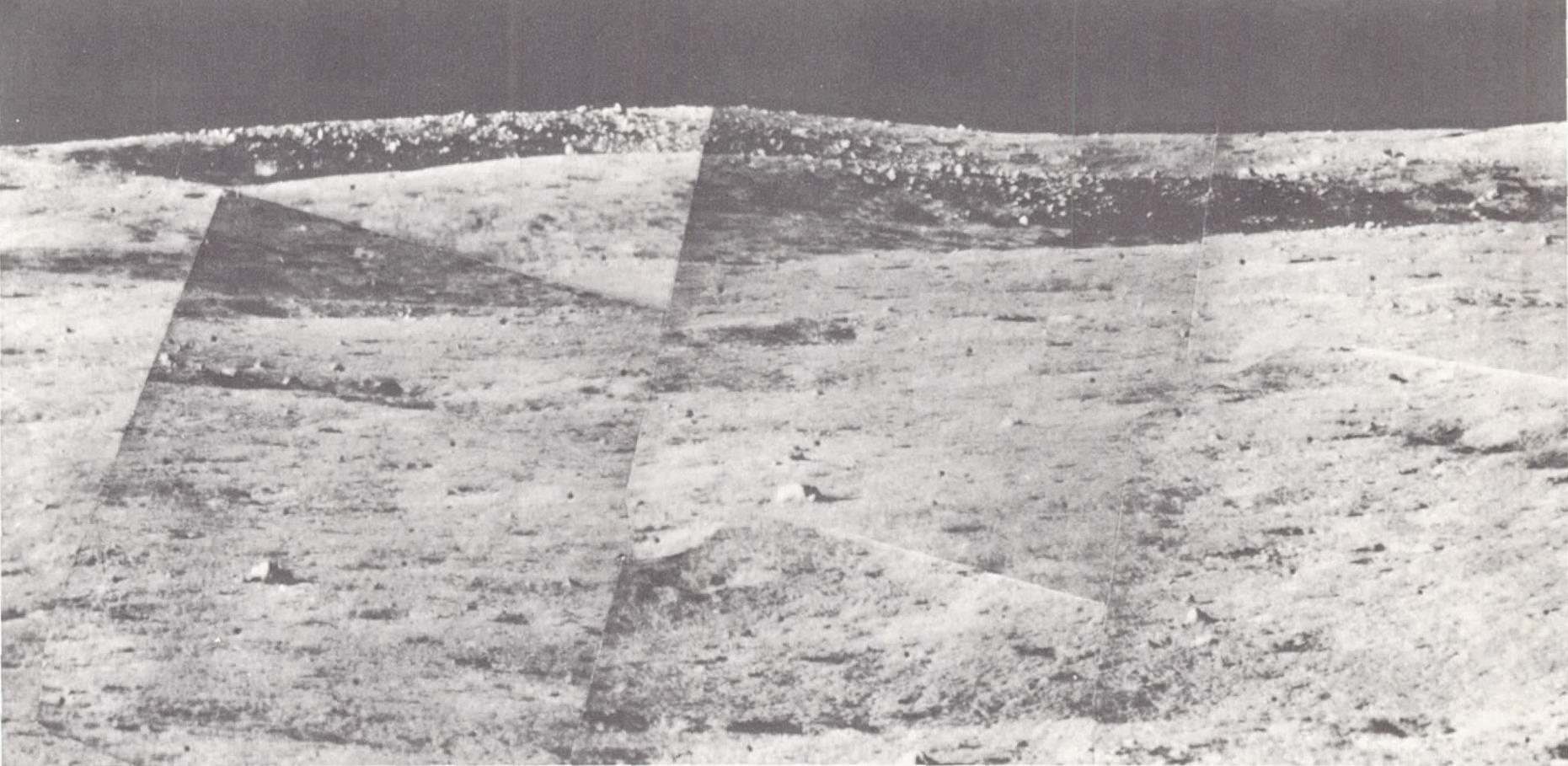 Lunar surface imaged by Surveyor 6. Figure 7-41 of NASA SP-184, caption reads: FIGURE 7-41.-The panoramas of the mare areas were quite similar. Although more rocks, hills, and steeper slopes occur north of Tycho, the general morphology is similar to that of the maria. (a) Surveyor I (b) Surveyor III (c) Surveyor V (d) Surveyor VI (e) Surveyor VII.